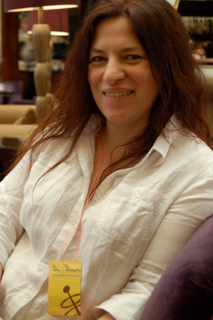 Justina Robson at Swancon 36, Perth WA